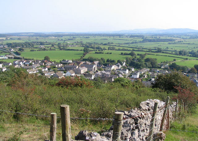 View from Gop Hill. The village of Trelawnyd in the centre. There are great views from this hill from virtually every angle. Although it is on private land, there are public footpaths and a permissive path (i.e. not a right of way)